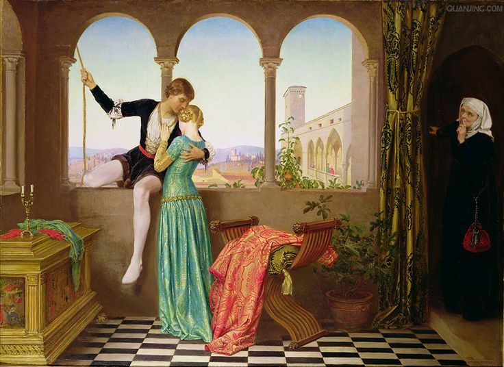 Eleanor Fortescue-Brickdale: Romeo and Juliet Farewell